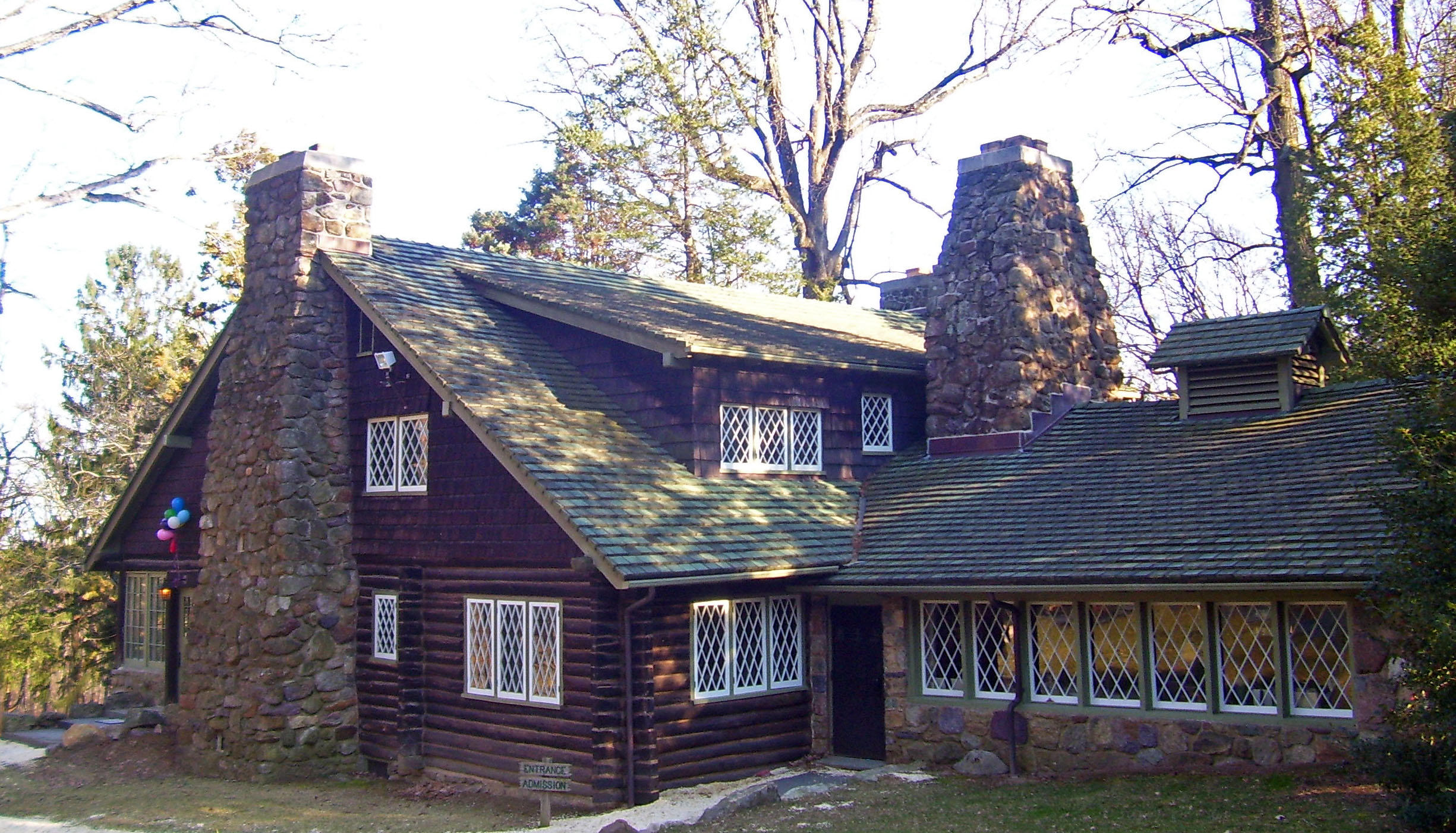 Main house at Craftsman Farms in Parsippany, NJ, USA. Gustav Stickley organized a sustainable community here in the early 20th century; it has been designated a U.S. National Historic Landmark.